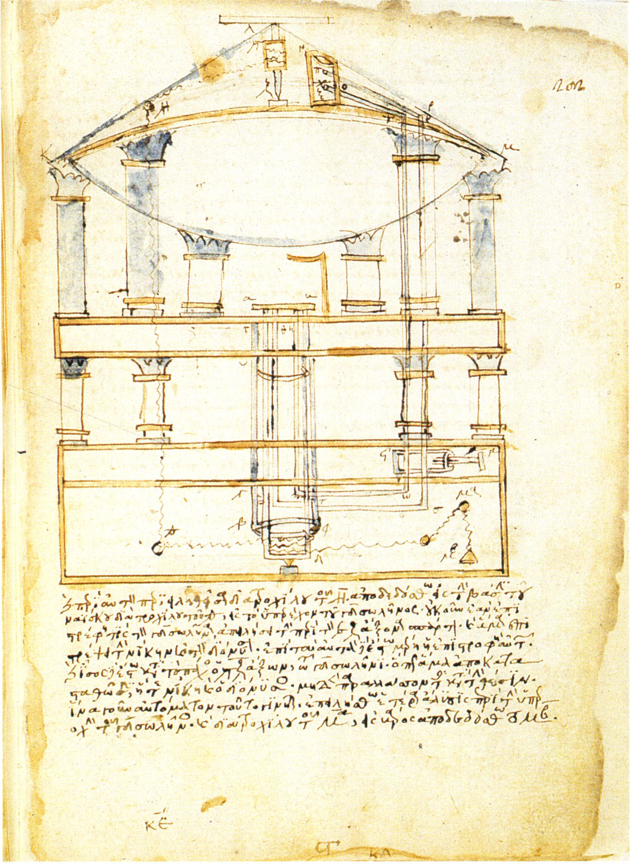 Hero of Alexandria, Automata 13: Diagram of an automat, a Bacchus figure dispensing wine and milk in a small temple. The figure is connected by invisible pipes with hidden tanks containing wine and milk. Venedig, Biblioteca Marciana, Gr. 516, fol. 202r.